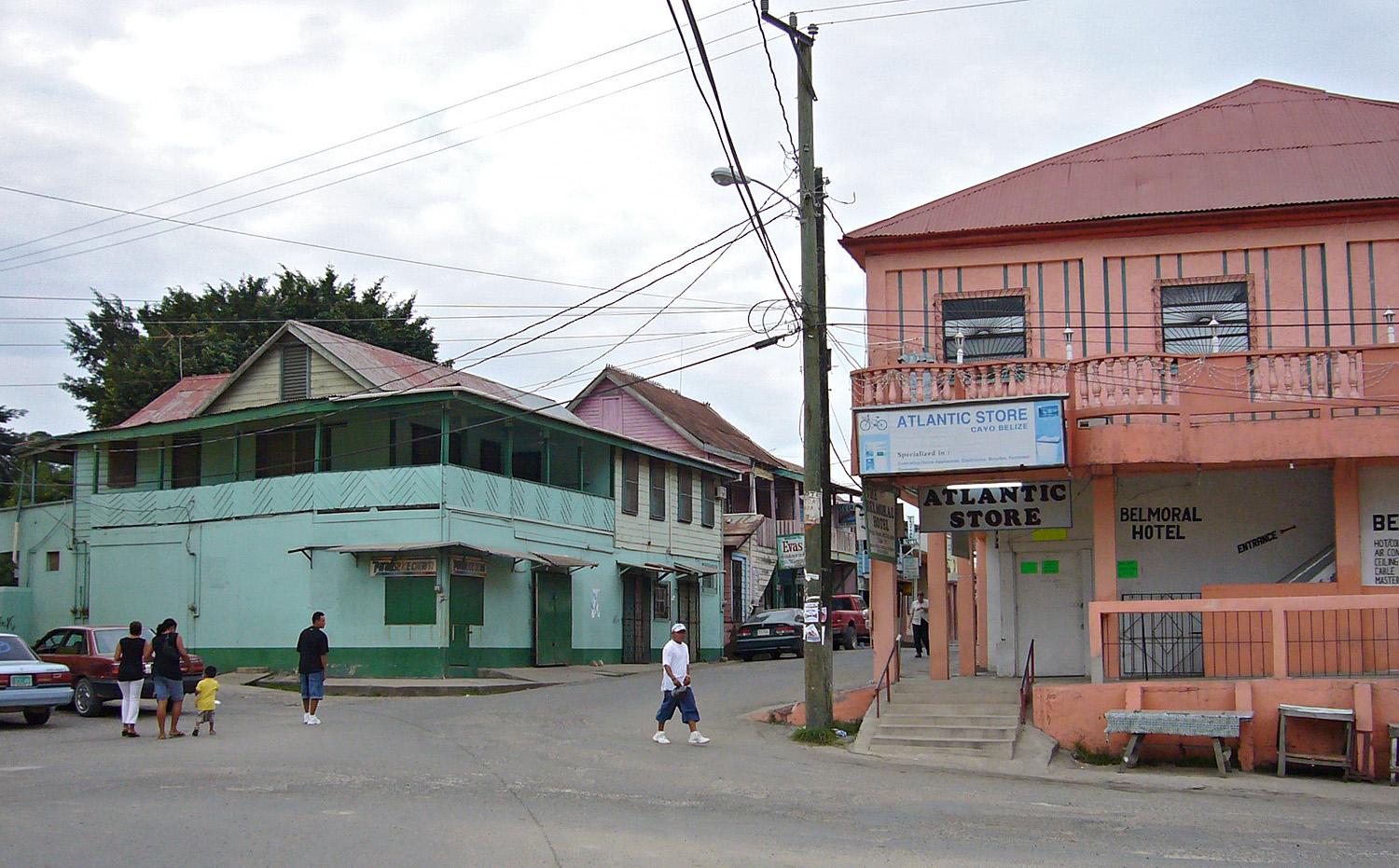 Main Street in San Ignacio, Belize